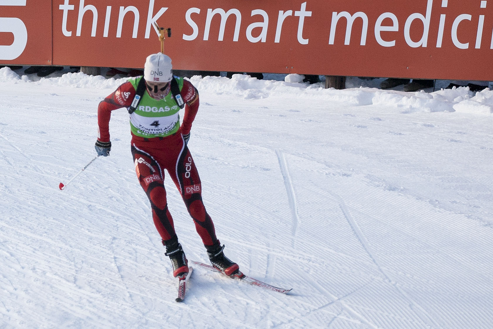 Ole Einar Bjørndalenб E.ON IBU WORLD CUP 8 BIATHLON - Kontiolahti (FIN)